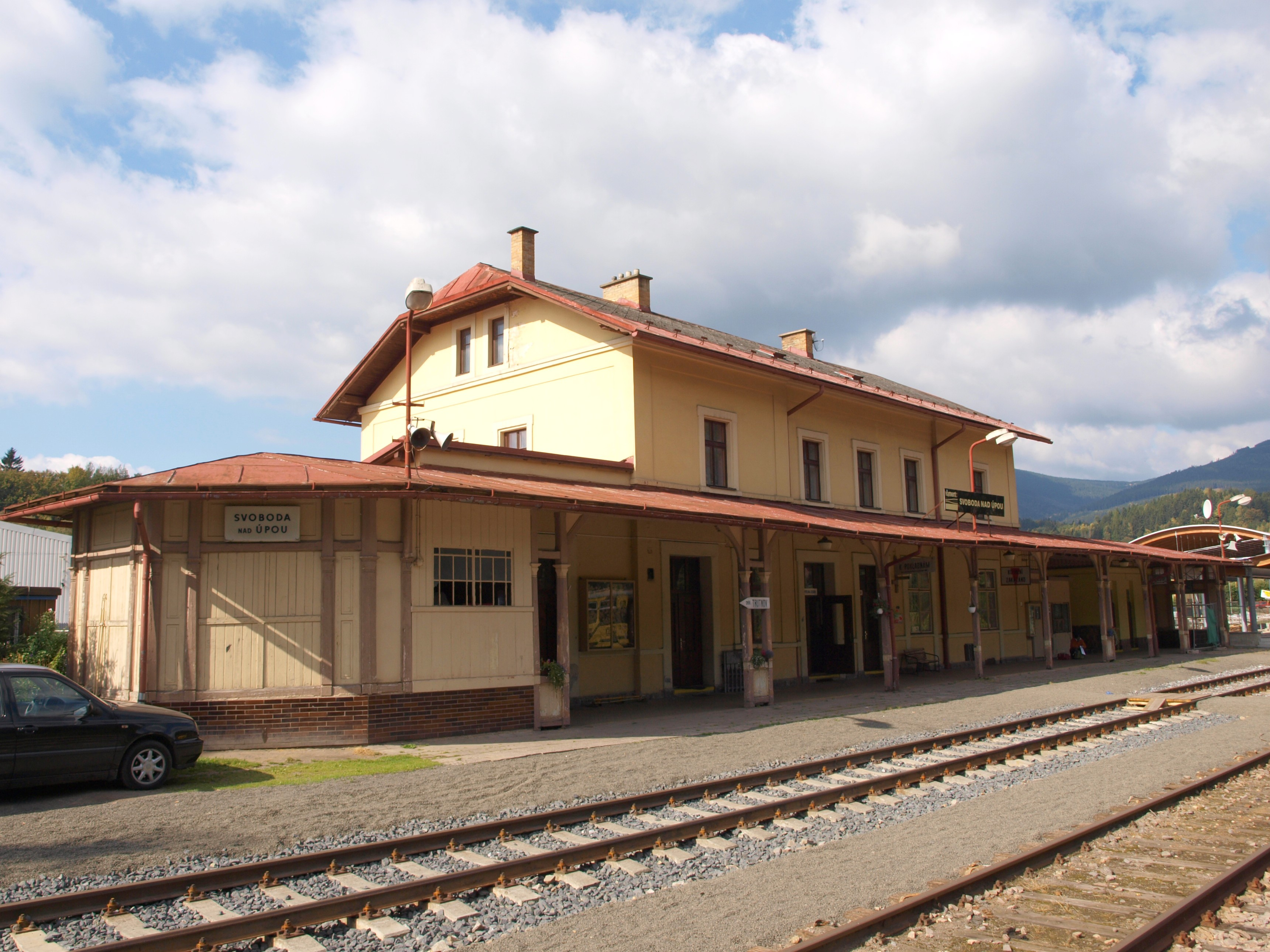 Svoboda nad Úpou train station